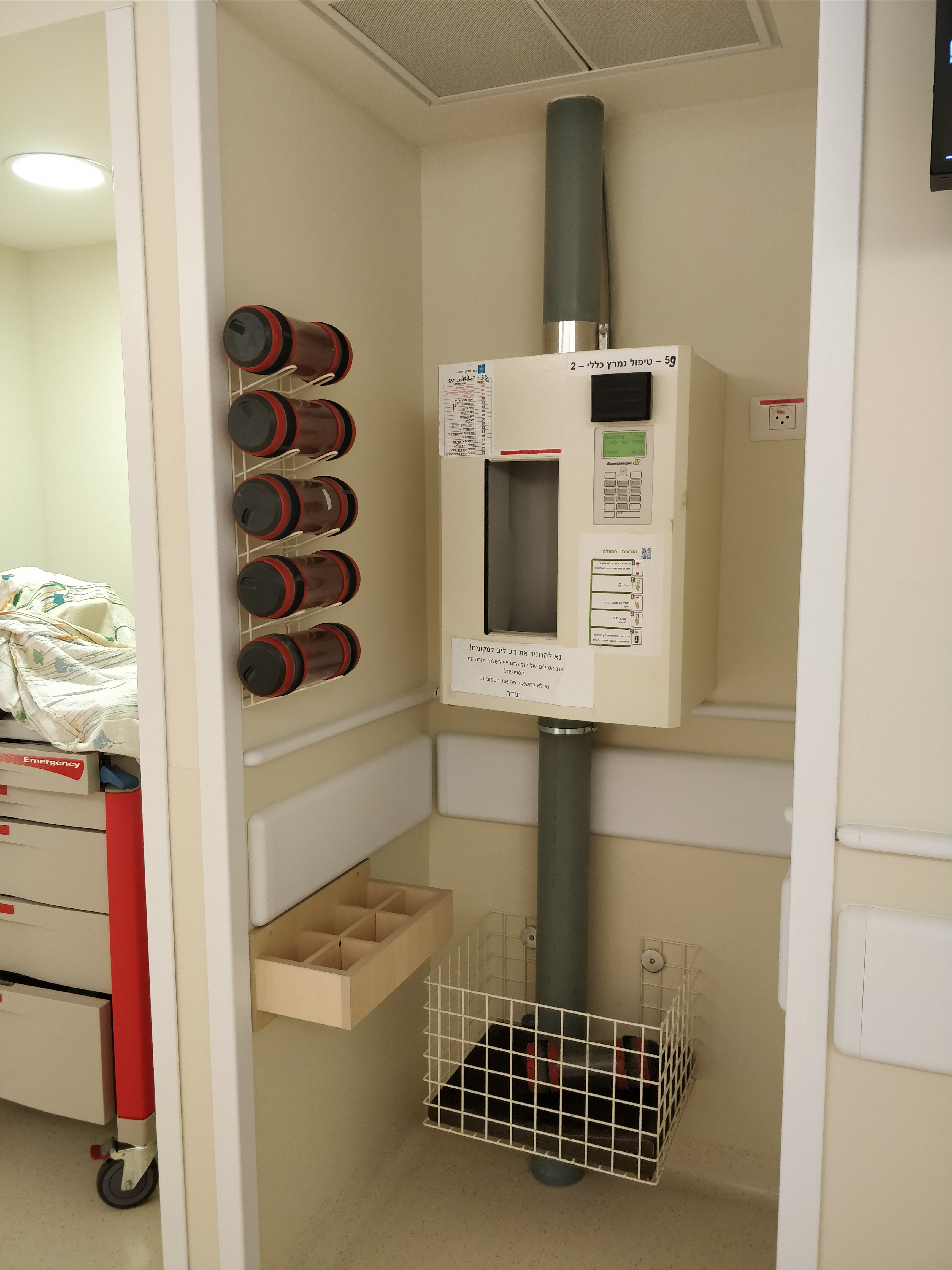 A pneumatic tube system in use at a hospital for sending samples to laboratories and between different departments. The picture shows the machine used for sending and receiving the canisters (note the basket underneath it), and multiple plastic canisters on the wall.